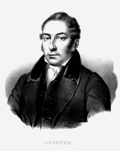 Pierre Antoine Berryer (1790-1868), french lawyer and politician